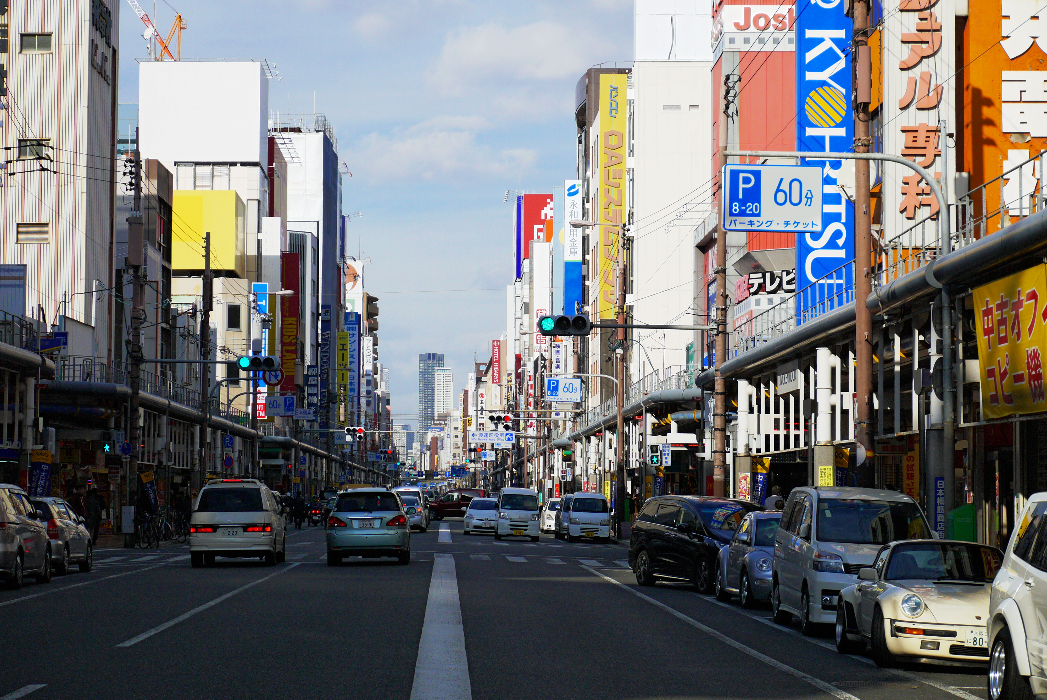 Nipponnbashi (日本橋 (大阪市)), Osaka, Osaka prefecture, Japan